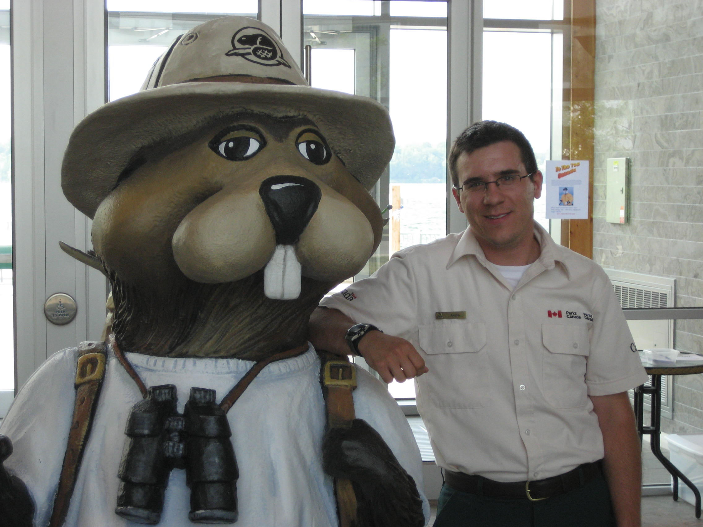 Parks Canada official mascot Parka; Mascot w/ Security, Canada Marine Discovery Centre, Pier 8, Hamilton, Ontario